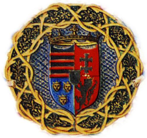 Coat arms of Mihály Szilagyi, governor of Hungary